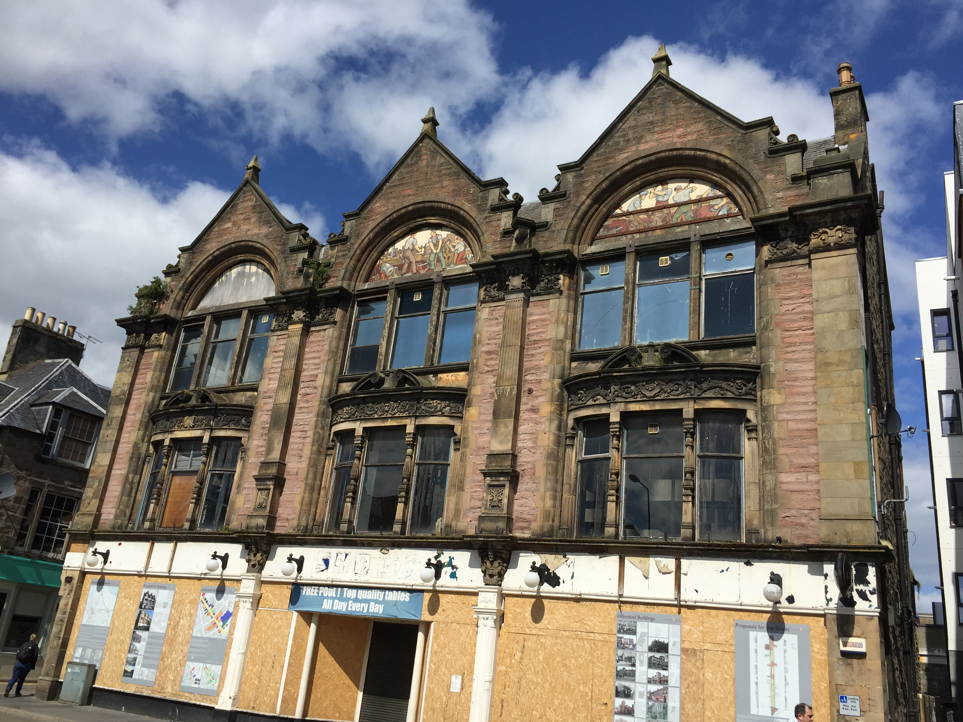 Inverness, 96 - 104 Academy Street, Rose Street Foundry Offices